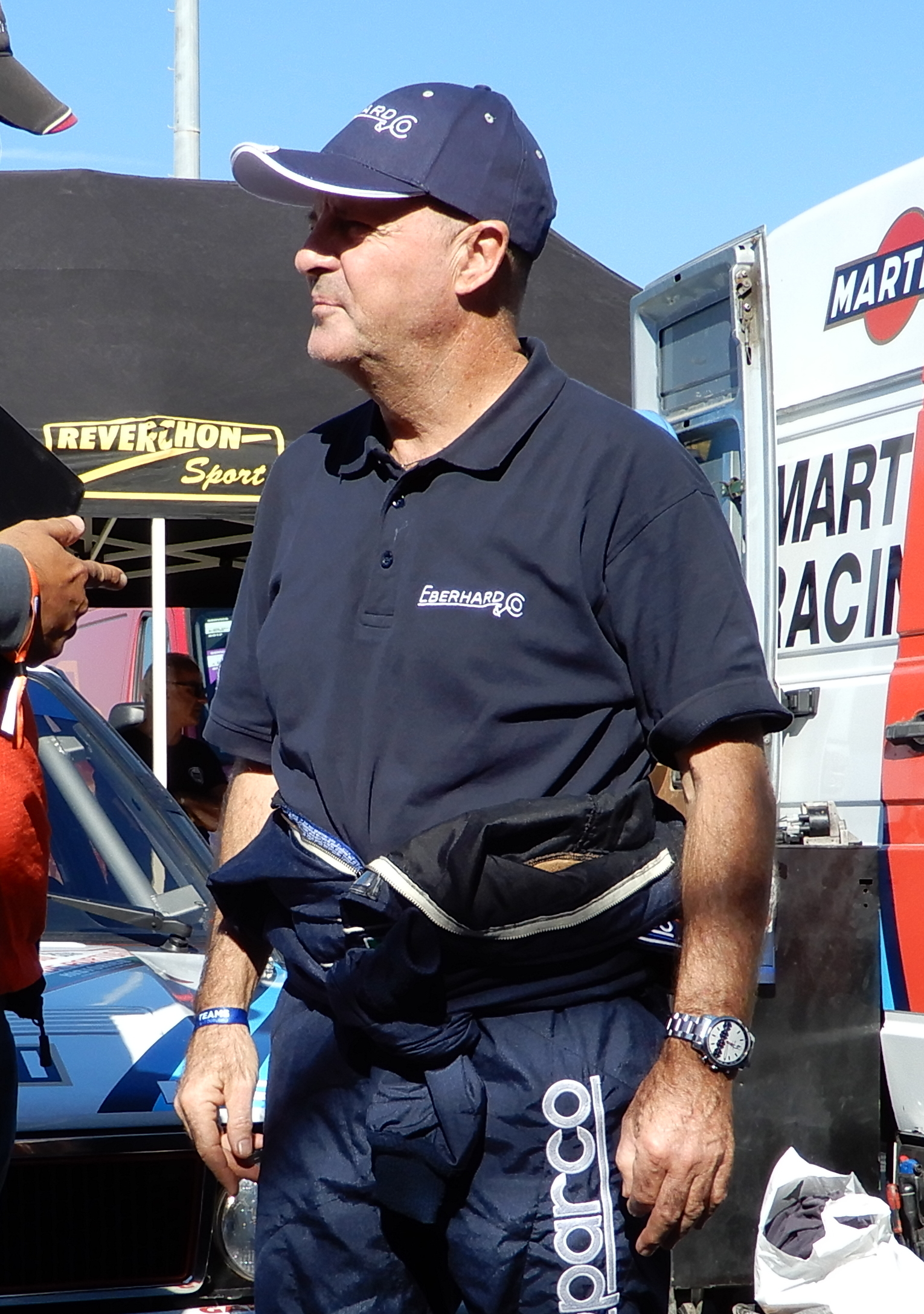 Former Italian rally driver Massimo "Miki" Biasion at 2018 Estoril Classic Week.